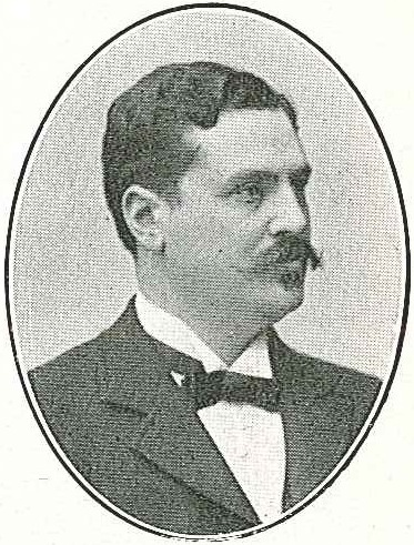 Artur Thiel (1860-1933), Swedish businessman and cultural personality; head of the Royal Swedish Opera 1907-1908.